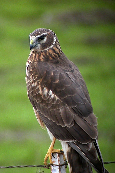 Northern Harrier (Circus hudsonius). I liked this for the strong facial disk capture. Las Gallinas Ponds, San Rafael, California